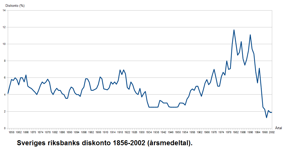 Discount of the National Bank of Sweden (Sveriges Riksbank) (mean annual rate).